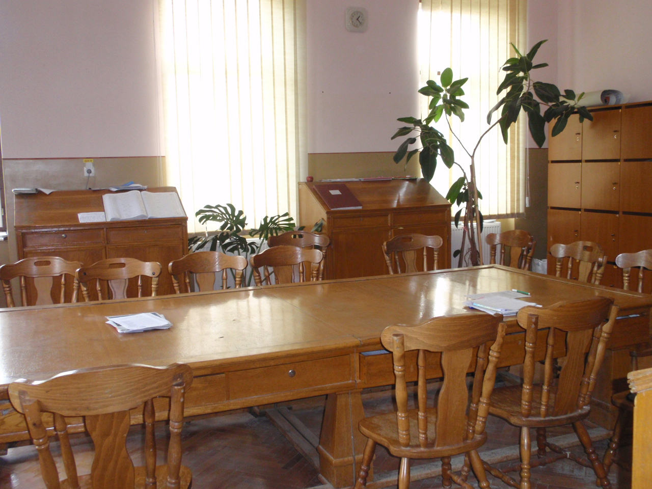 Teachers' room